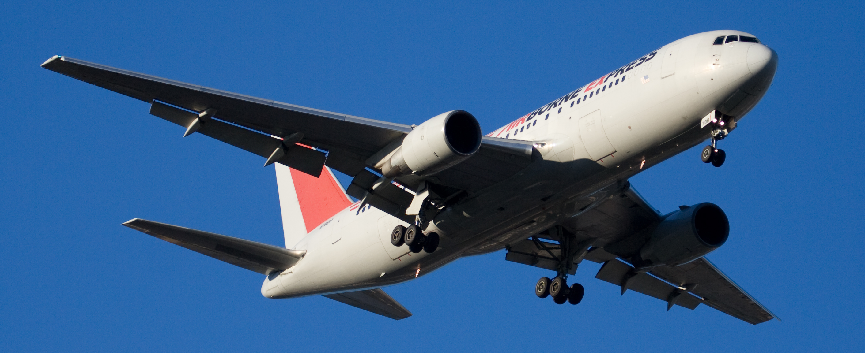 Airborne Express 767, reg. N*788*